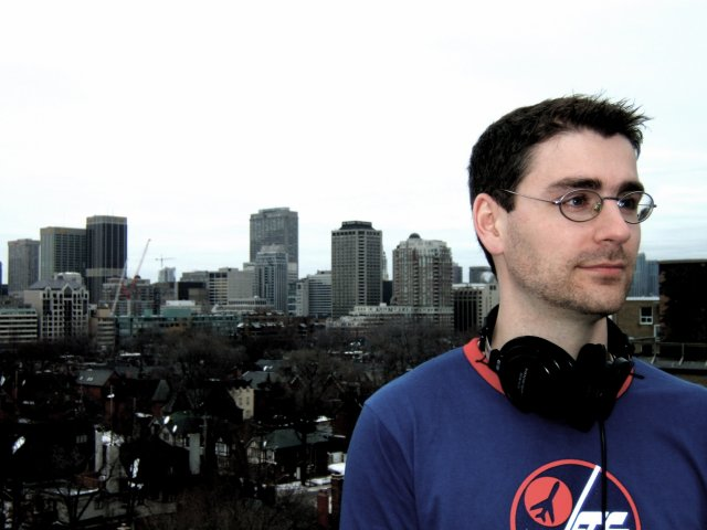 Andrew Moore (musician) "A.M." in front of Toronto skyline